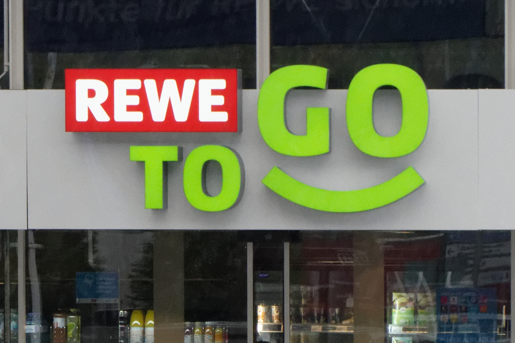 REWE to go als an einer Aral-Tankstelle